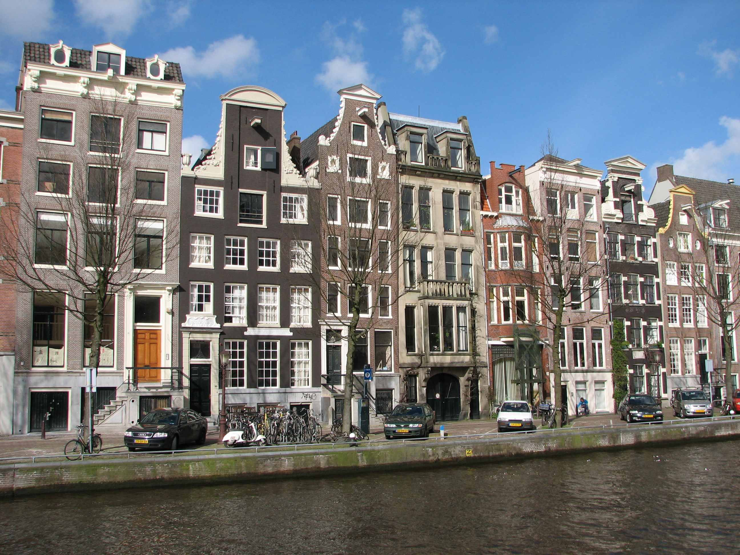 Amsterdam